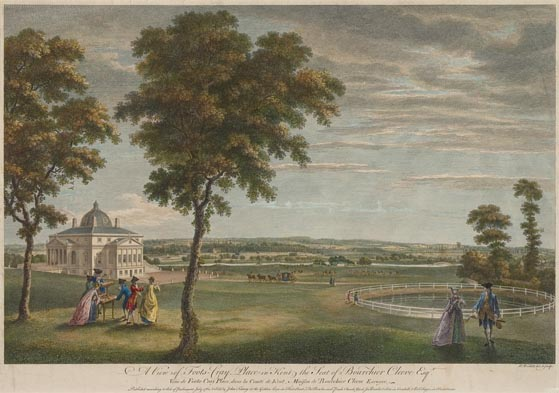 Engraved landscape around Foots Cray Place, Kent, England.